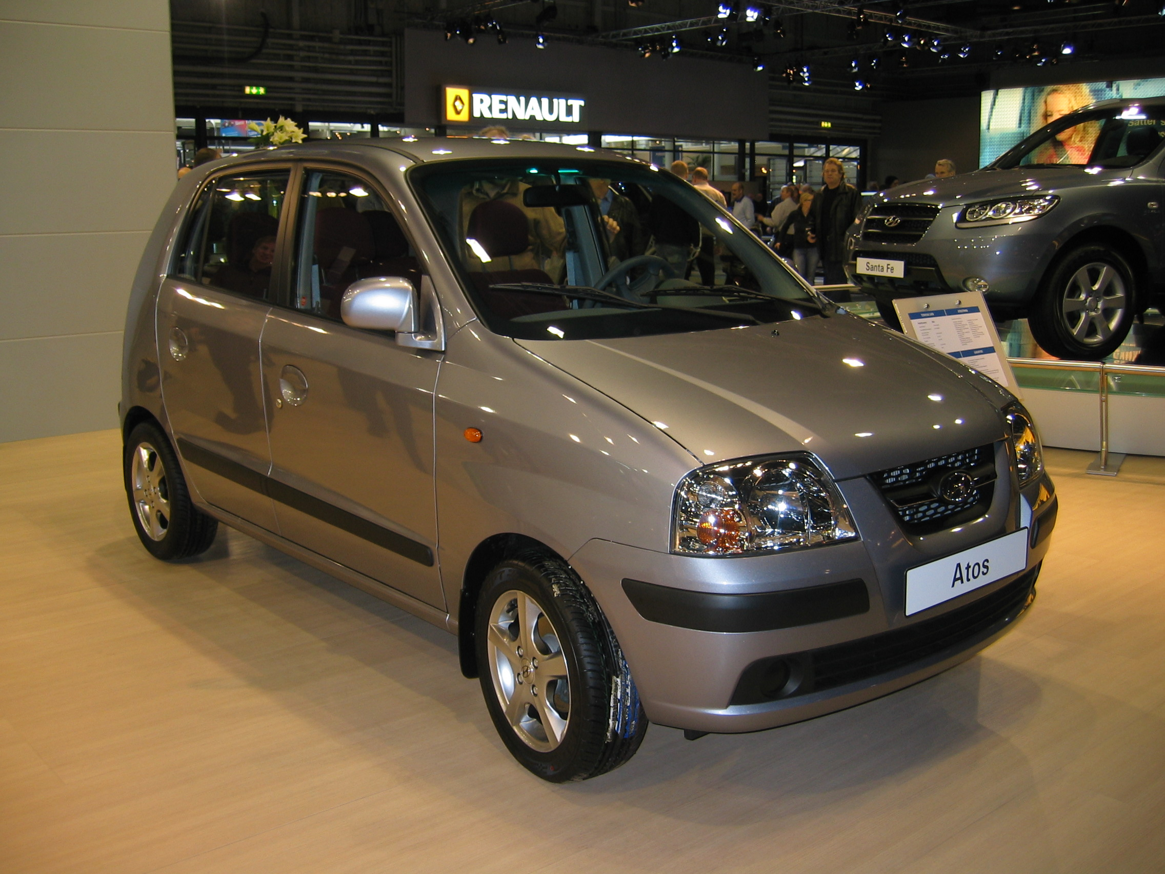 2006 Hyundai Atos